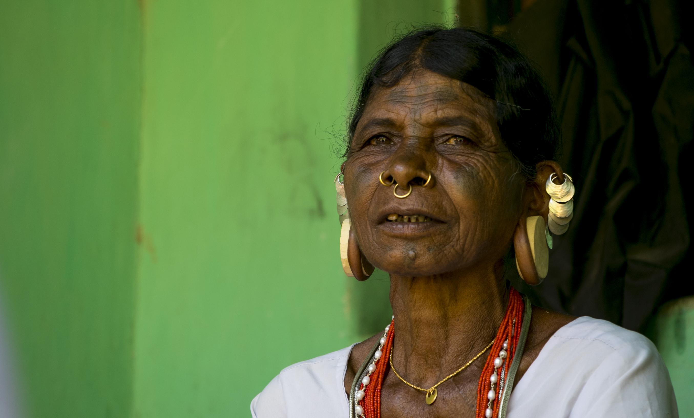 Lanjia Sora (Saura) woman in traditional jewelry in Rejingtal, Rayagada district, Odisha, India. Lanjia Soras are an indigenous community who speak Sora, an engendered language.